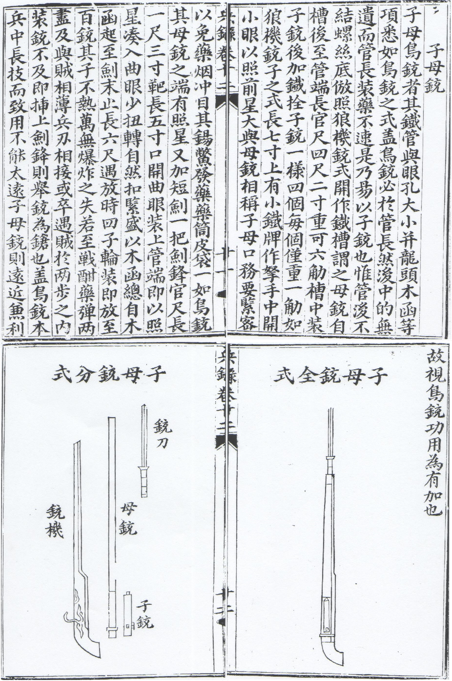 Ming breech-loading musket with a bayonet.